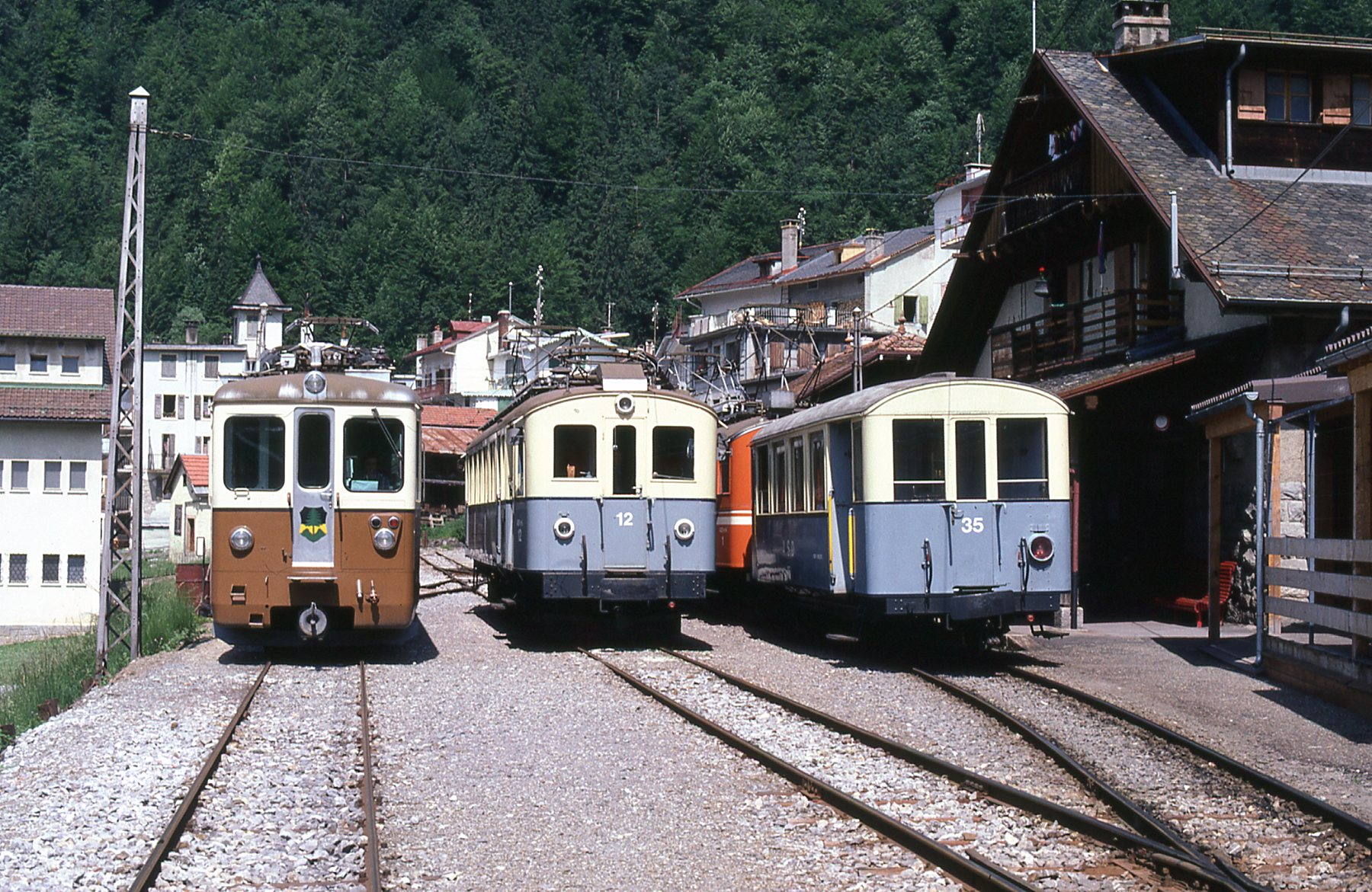 Trains of the Aigle-Leysin line on the Aigle Sepey Diablerets run